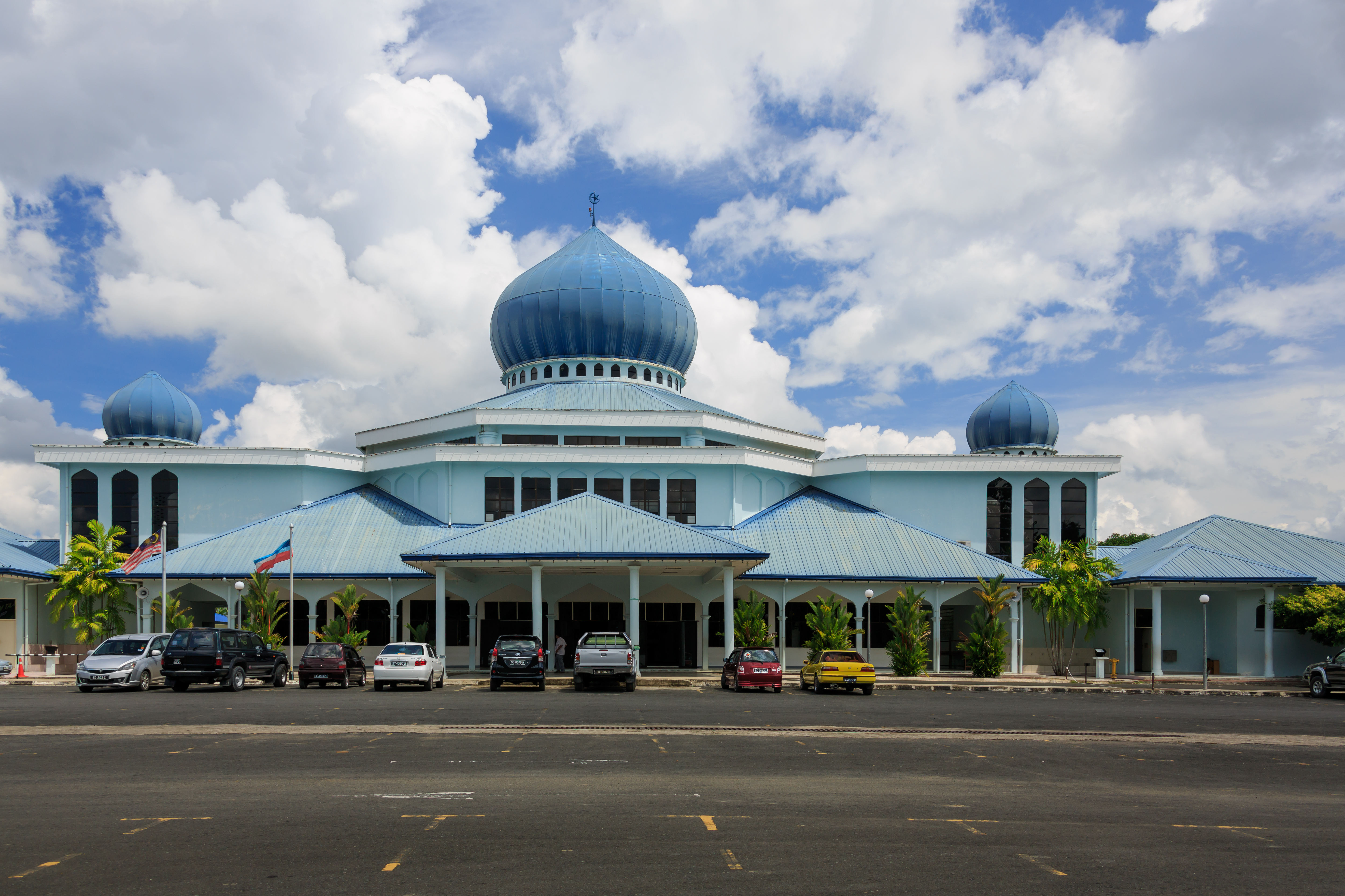 Lahad Datu, Sabah: Masjid Ar-Raudah